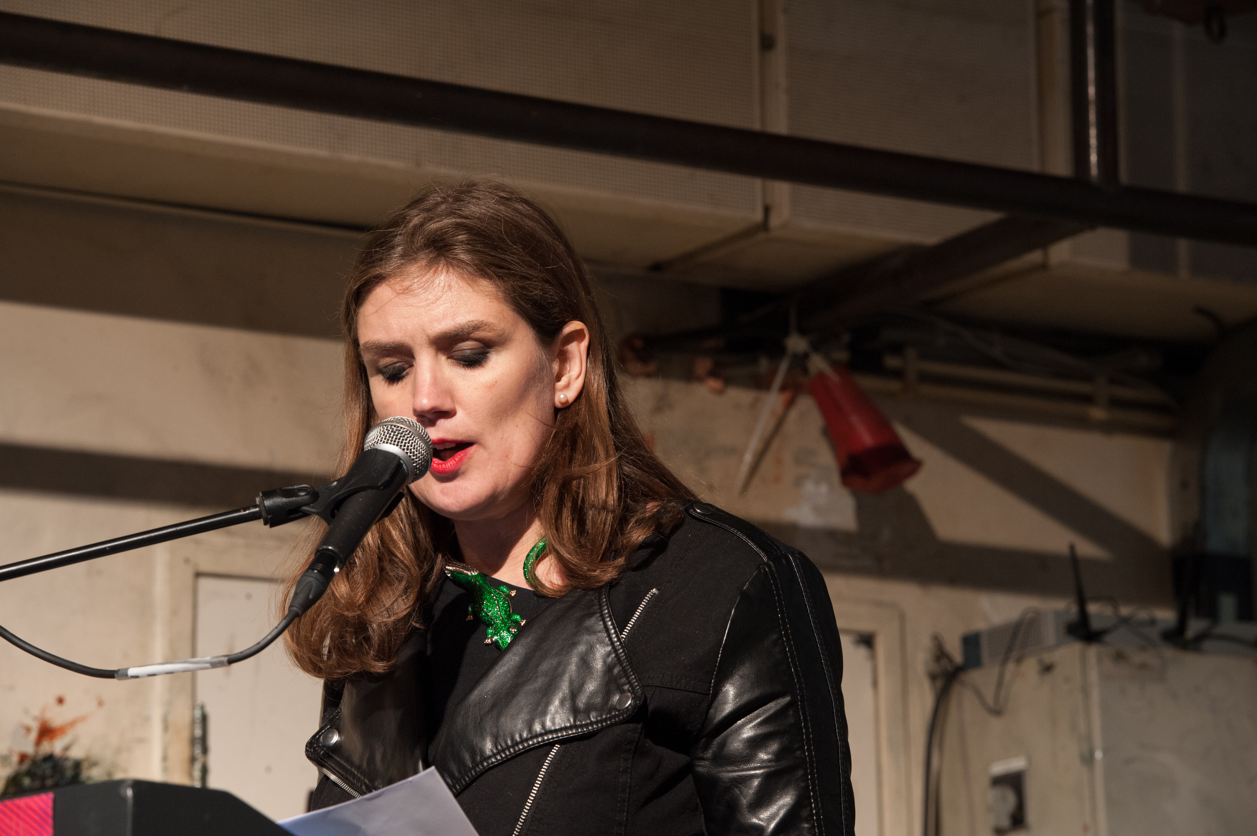 Session: Political Economy of Social Networks: Art & Practice Subject: Shooting Back Photo: Martin Risseeuw